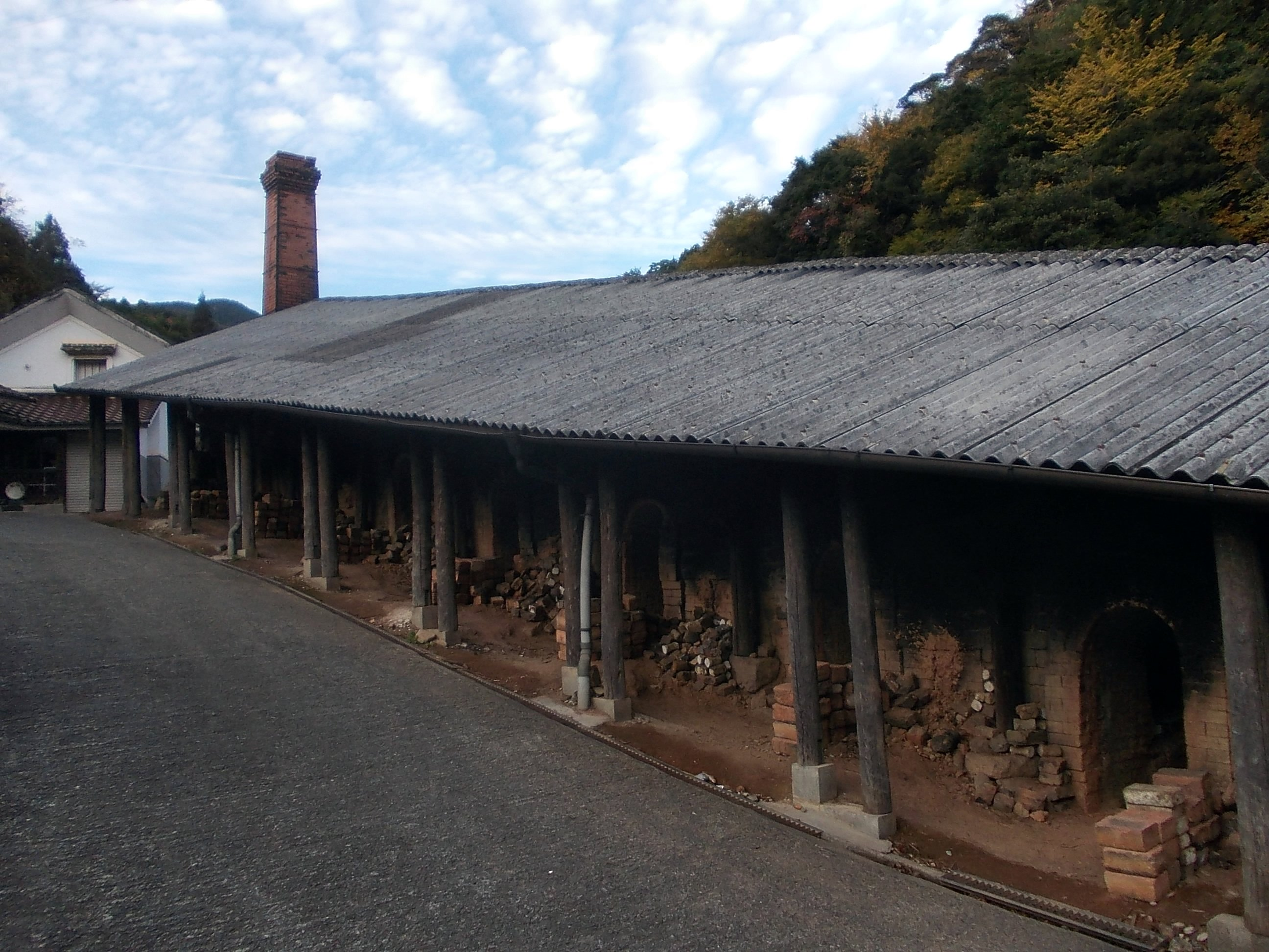 Onta climbing kiln, Hita, Oita, Japan